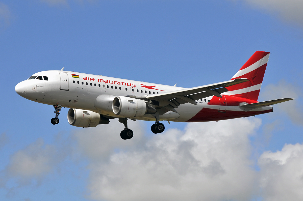 Air Mauritius Airbus A319 Mon Choisy approaching Runway 14 at Plaisance